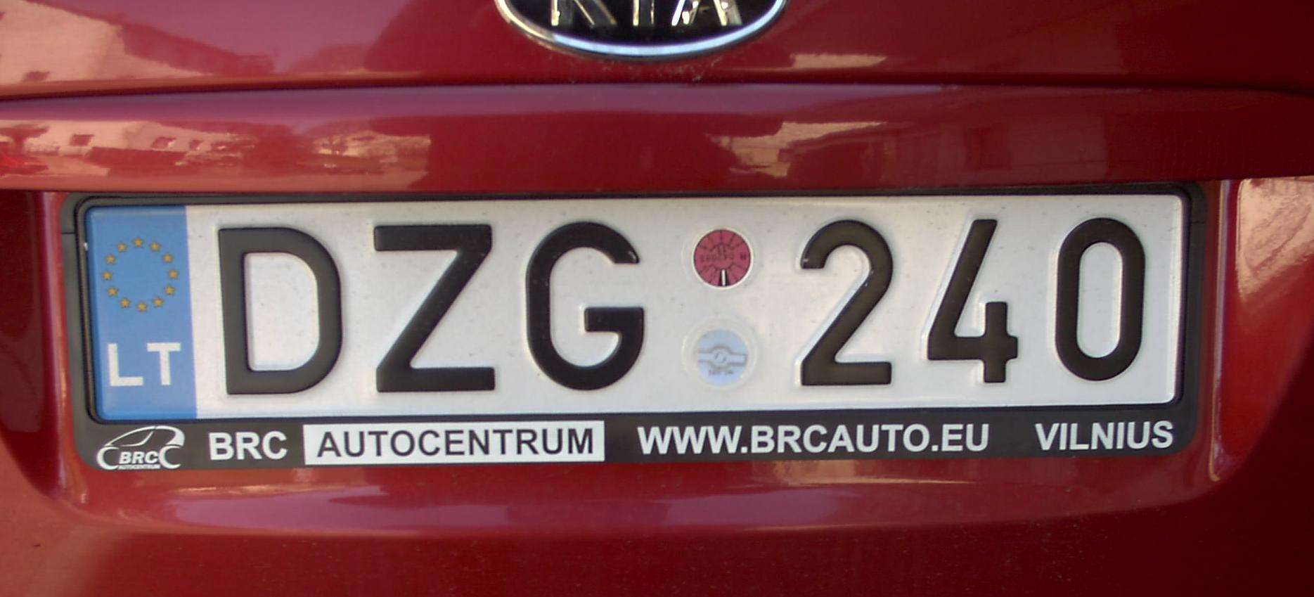 License plate of Lithuania: rear. Issued June 2008.